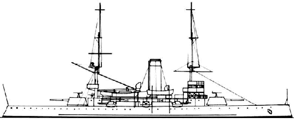 Computer traced from an old drawing found at the Norwegian Armed Forces Museum by uploader. Original from the 1905 German booklet Taschenbuch der Kriegsflotten, likely in PD.